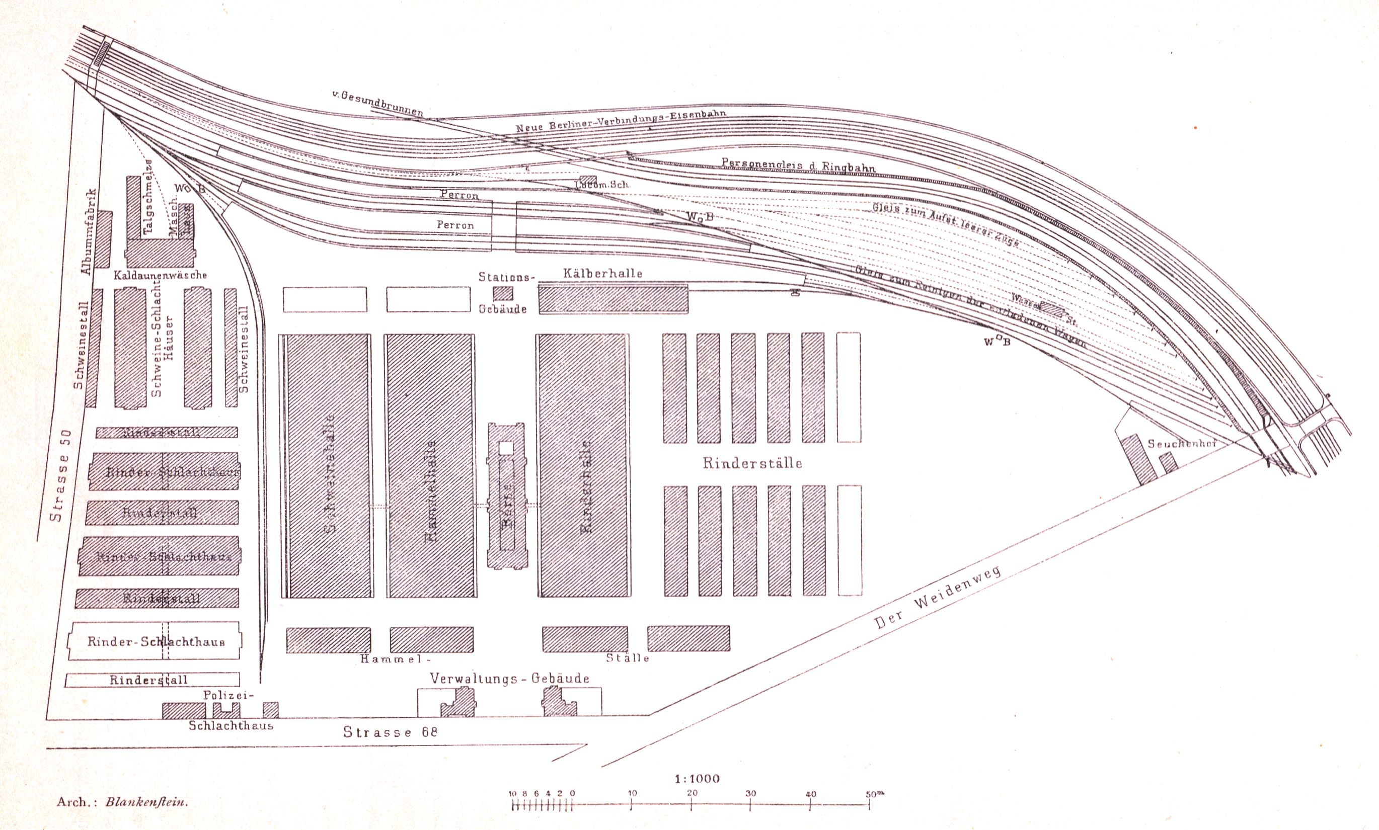 Berlin, Zentralviehhof (central cattle station)